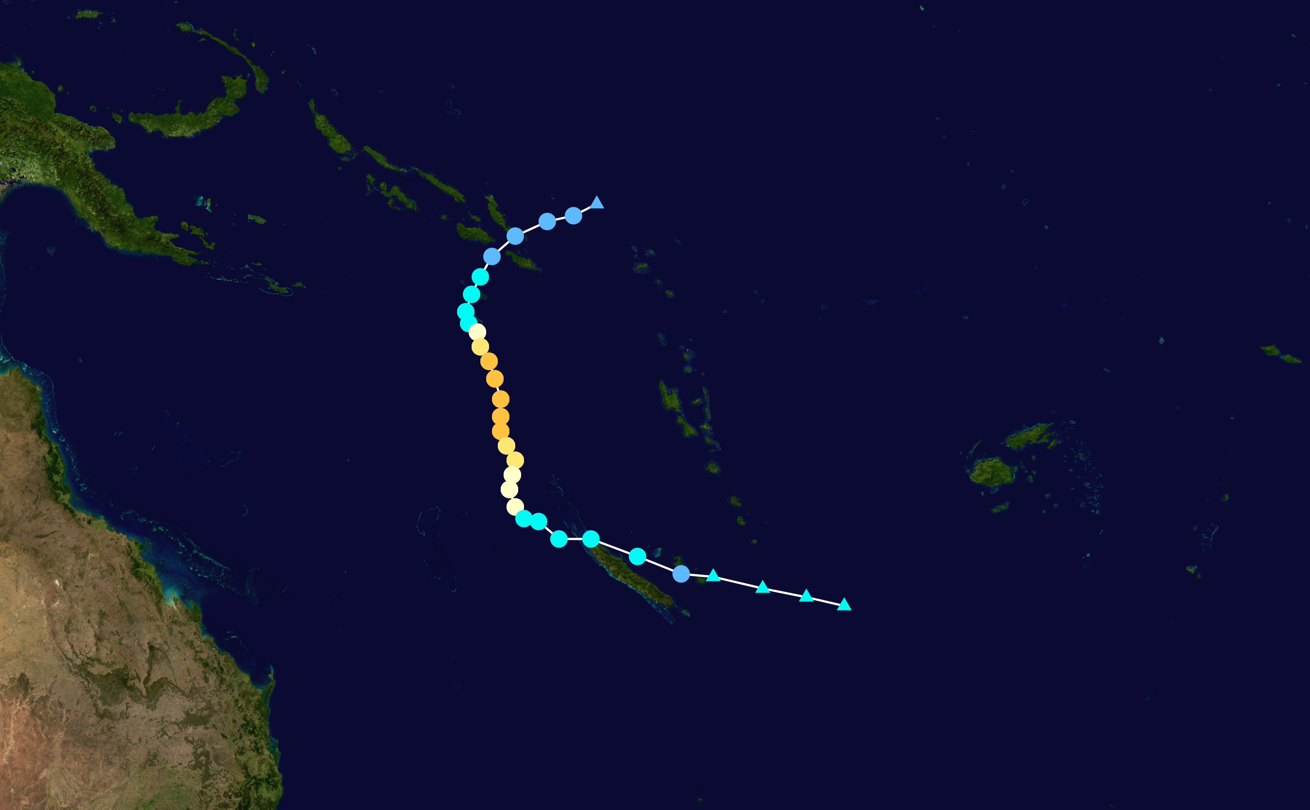 Track map of Severe Tropical Cyclone Freda of the 2012-13 South Pacific cyclone season and the 2012-13 Australian region cyclone season. The points show the location of the storm at 6-hour intervals. The colour represents the storm's maximum sustained wind speeds as classified in the Saffir–Simpson scale (see below), and the shape of the data points represent the nature of the storm, according to the legend below. Saffir–Simpson scale Tropical depression≤38 mph≤62 km/h Category 3111–129 mph178–208 km/h Tropical storm39–73 mph63–118 km/h Category 4130–156 mph209–251 km/h Category 174–95 mph119–153 km/h Category 5≥157 mph≥252 km/h Category 296–110 mph154–177 km/h Unknown Storm type Tropical cyclone Subtropical cyclone Extratropical cyclone / Remnant low / Tropical disturbance / Monsoon depression